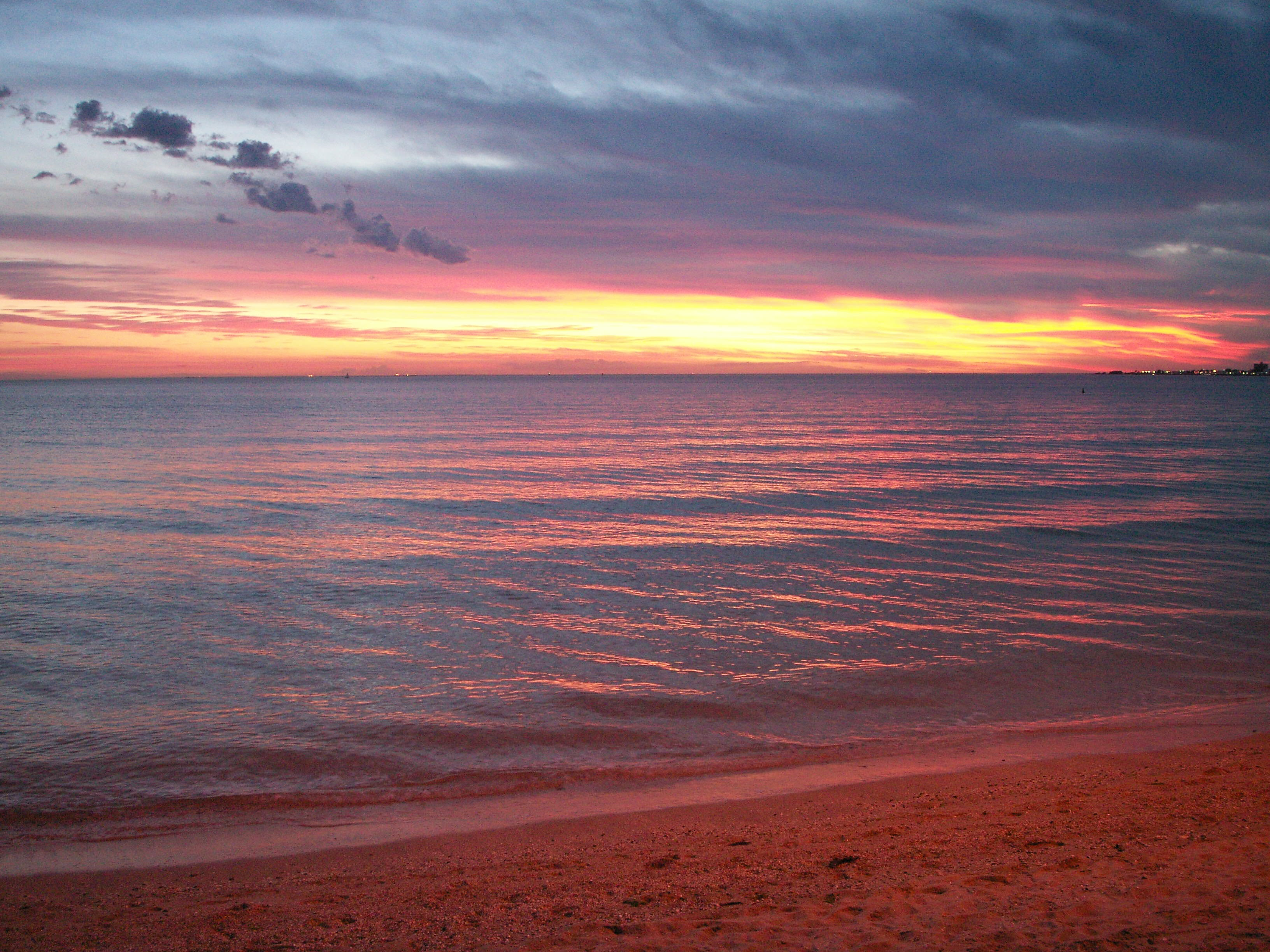 Evening at Middle Park Beach, Melbourne, Australia